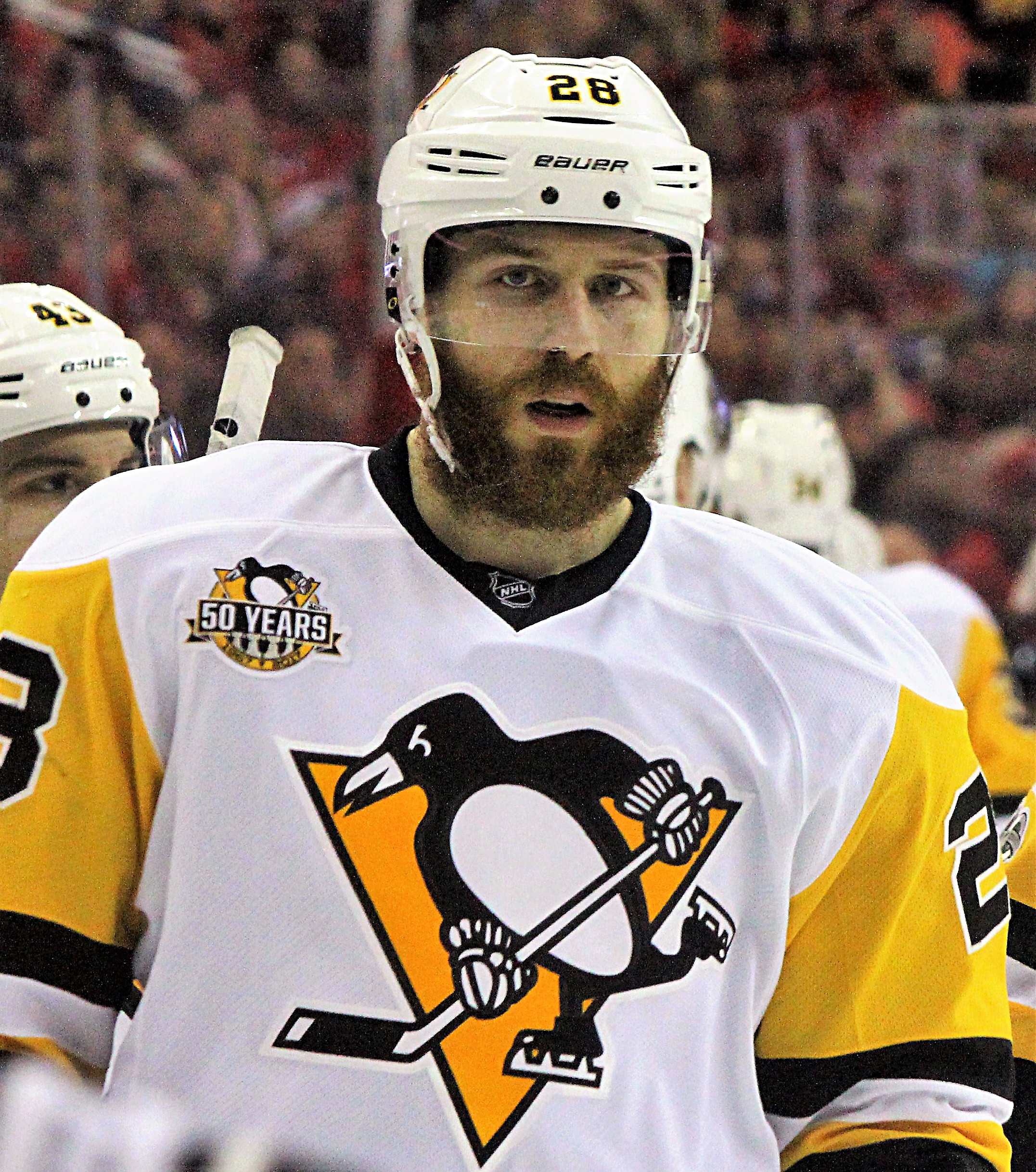 Pittsburgh Penguins defenseman Ian Cole during a playoff game against the Washington Capitals, April, 29, 2017, at Verizon Center in Washington, D.C.